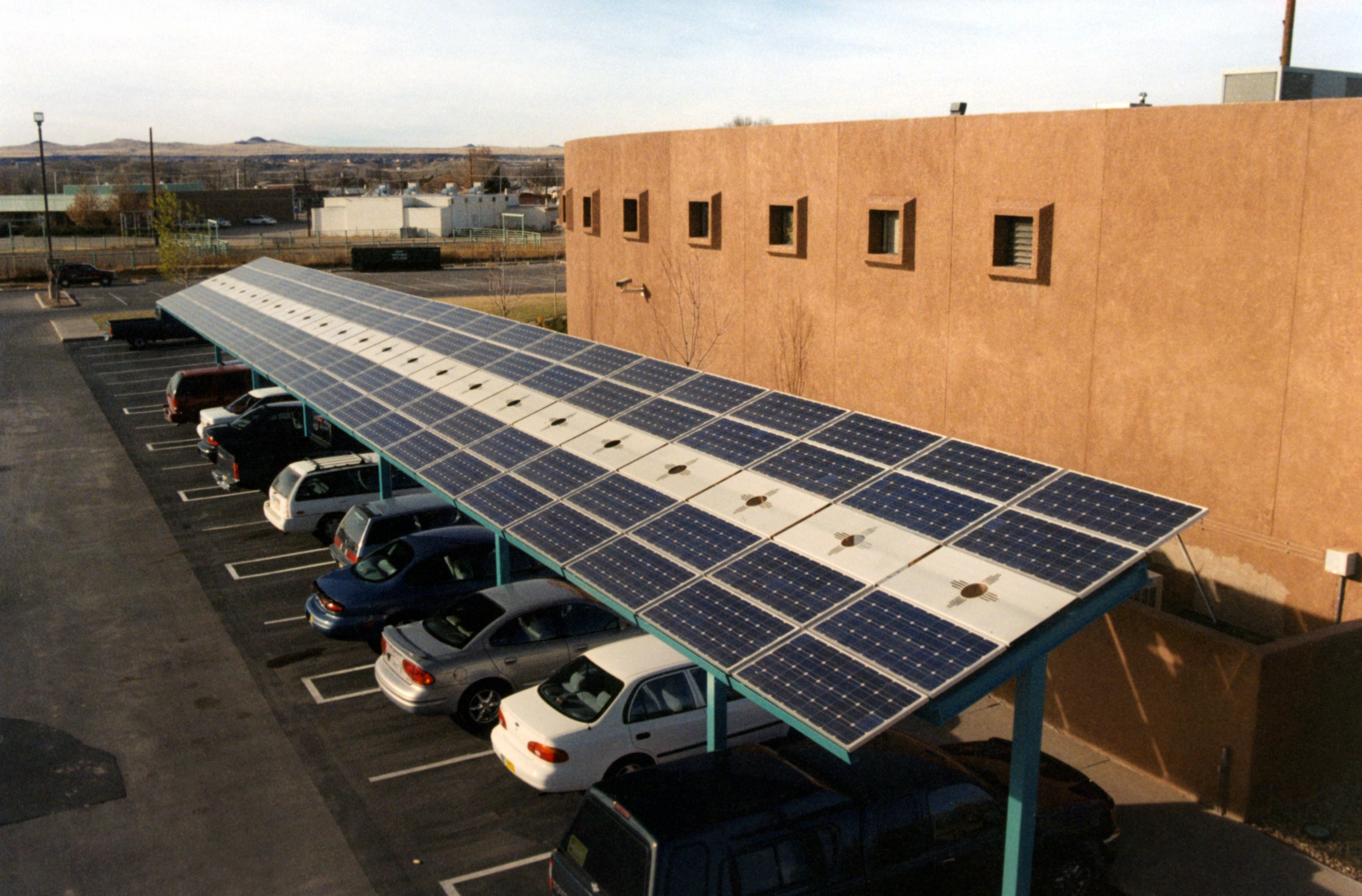 This solar carport at the Indian Pueblo Cultural Center in Albuquerque, New Mexico, stands ready to impress some 400,000 visitors each year. The system delivers about 23 megawatt hours of clean electricity annually to the local utility grid (Public Service Company of New Mexico), making it the largest commercial PV system in New Mexico. Diversified Systems Manufacturing, a Native American owned and operated PV development company, was the contractor. The New Mexico Department of Energy, Minerals, and Natural Resources funded the project. Engineers from Sandia National Laboratories were responsible for the project's electrical design review. The project is the brainchild of Dave Melton, president of DSM and a tribal member of the Laguna Pueblo. It is also part of the Million Solar Roofs initiative, which seeks to place solar energy systems on one million roofs in the United States by 2010. | Photo courtesy of Sandia National Laboratories.